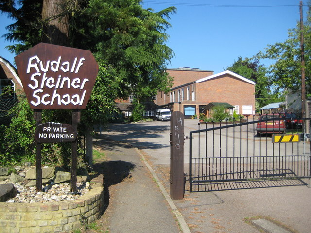 View of main gate to the Rudolf Steiner School in Kings Langley , UK Kings Langley: Rudolf Steiner School